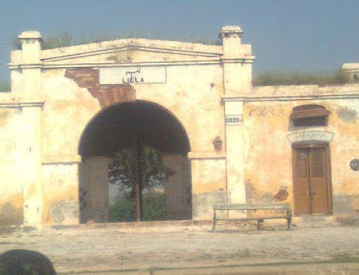 Lilla Station